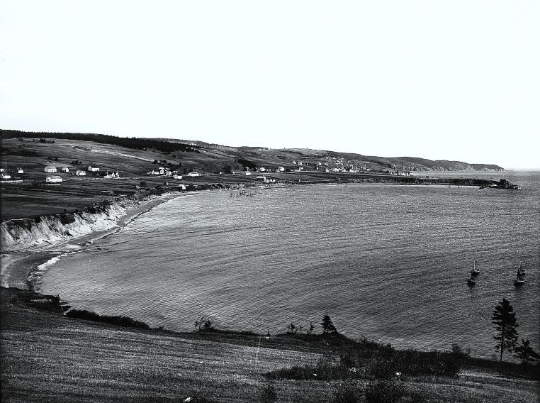 Photograph, Anse-à-Gascon, Gaspé Peninsula, QC, about 1900, Wm. Notman & Son, Silver salts on glass - Gelatin dry plate process - 20 x 25 cm